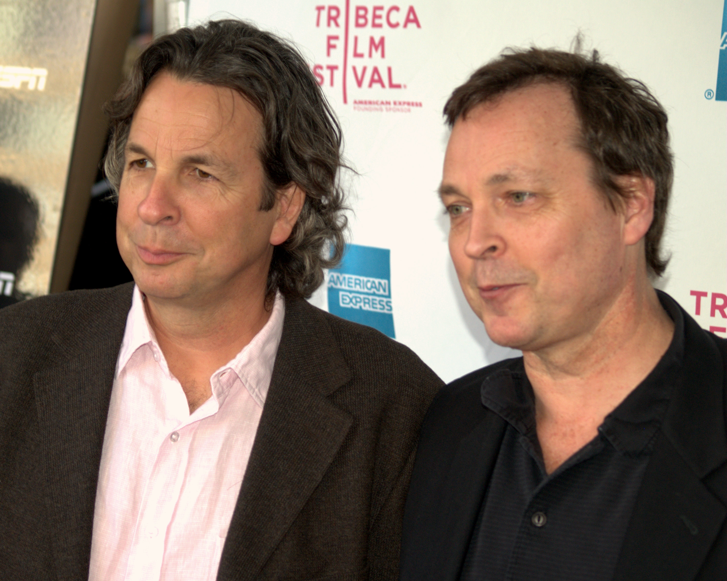 Peter Farrelly and Bobby Farrelly at the 2009 Tribeca Film Festival premiere of their' Lost Son of Havana.